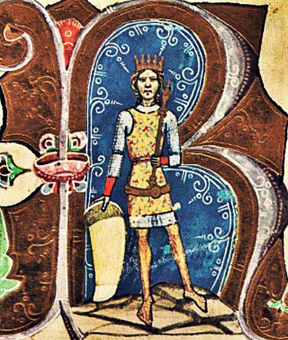 Géza II of Hungary